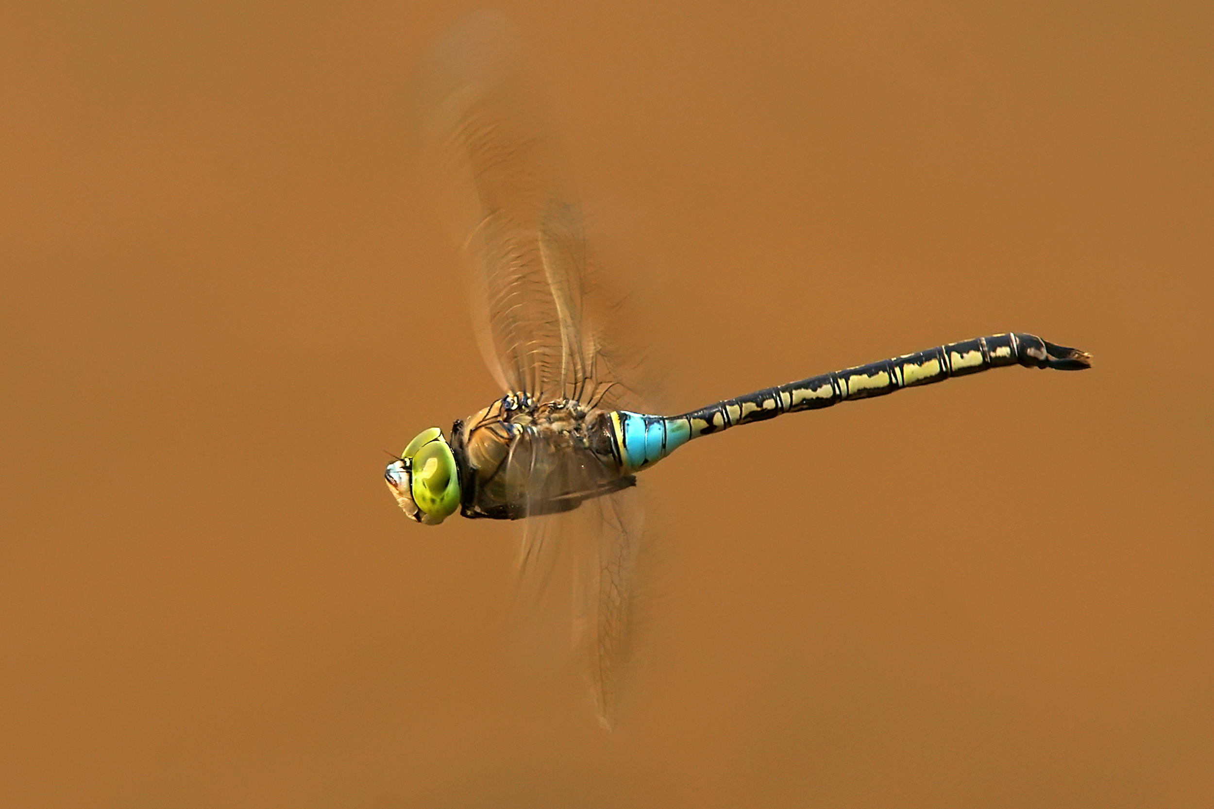 Anax parthenope 01